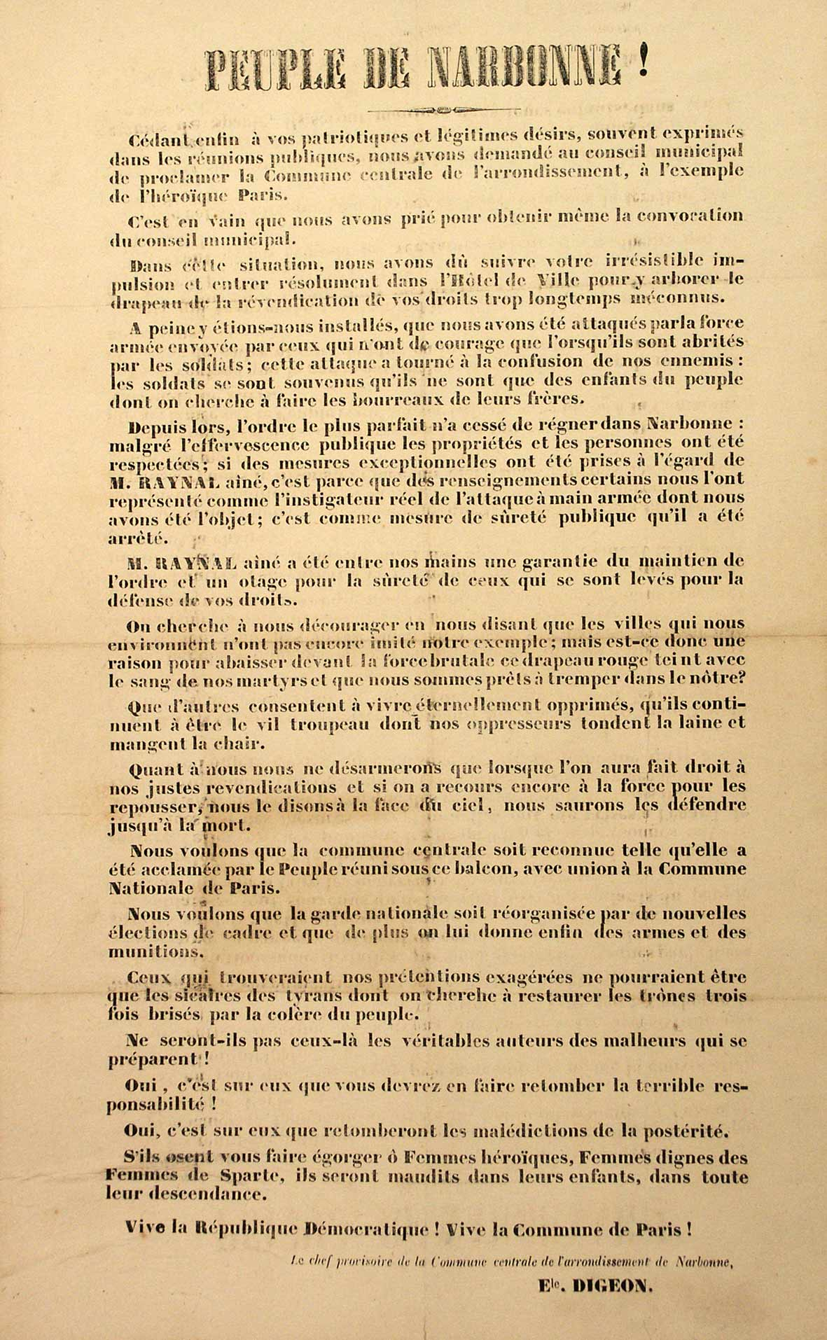 Affiche de la Commune de Narbonne adressée au "Peuple de Narbonne". Signé par Émile Digeon, "Chef provisoire de la Commune de l'arrondissement de Narbonne". 30 mars 1871